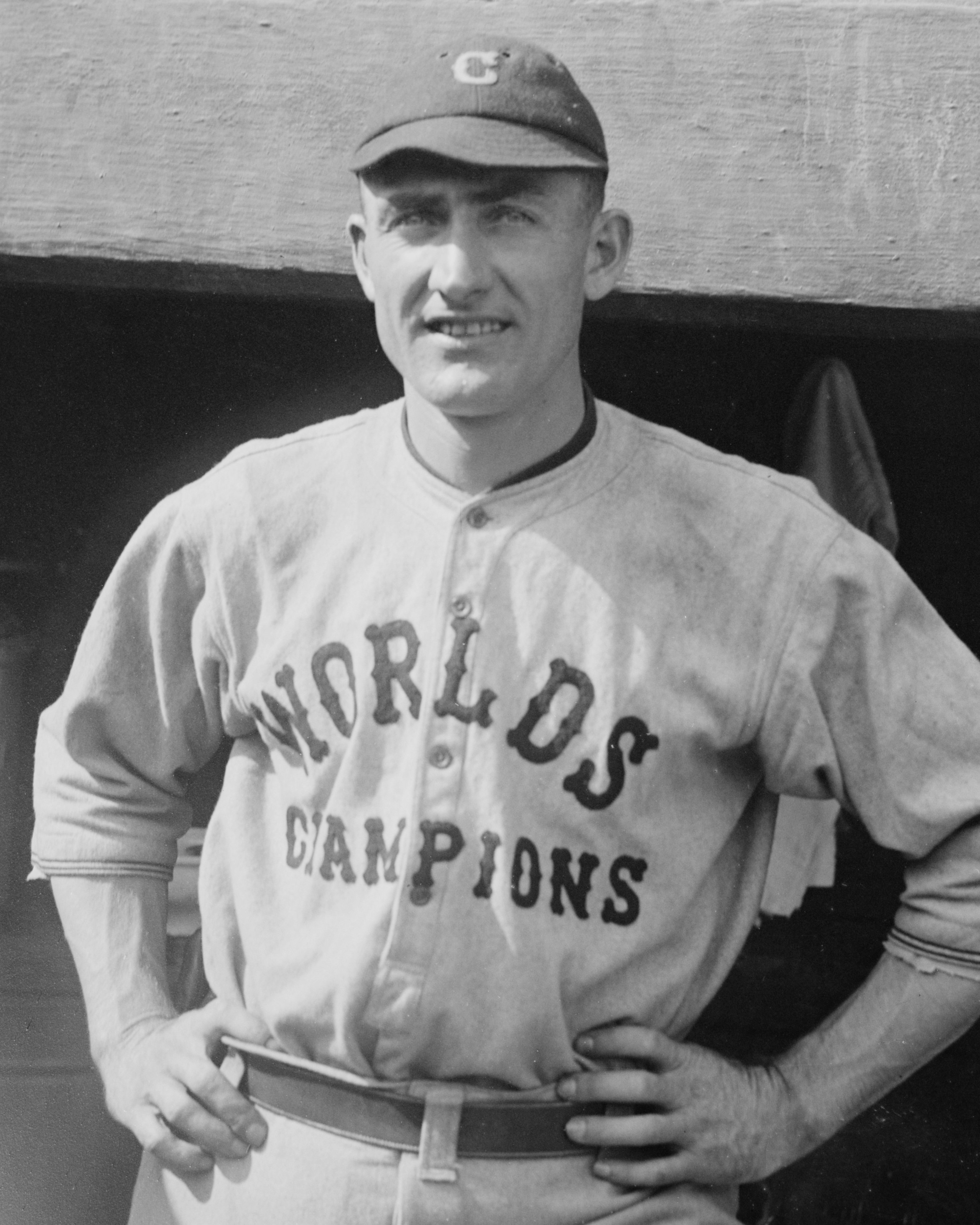 Elmer Smith from the George Grantham Bain Collection of the Library of Congress Prints and Photographs Division